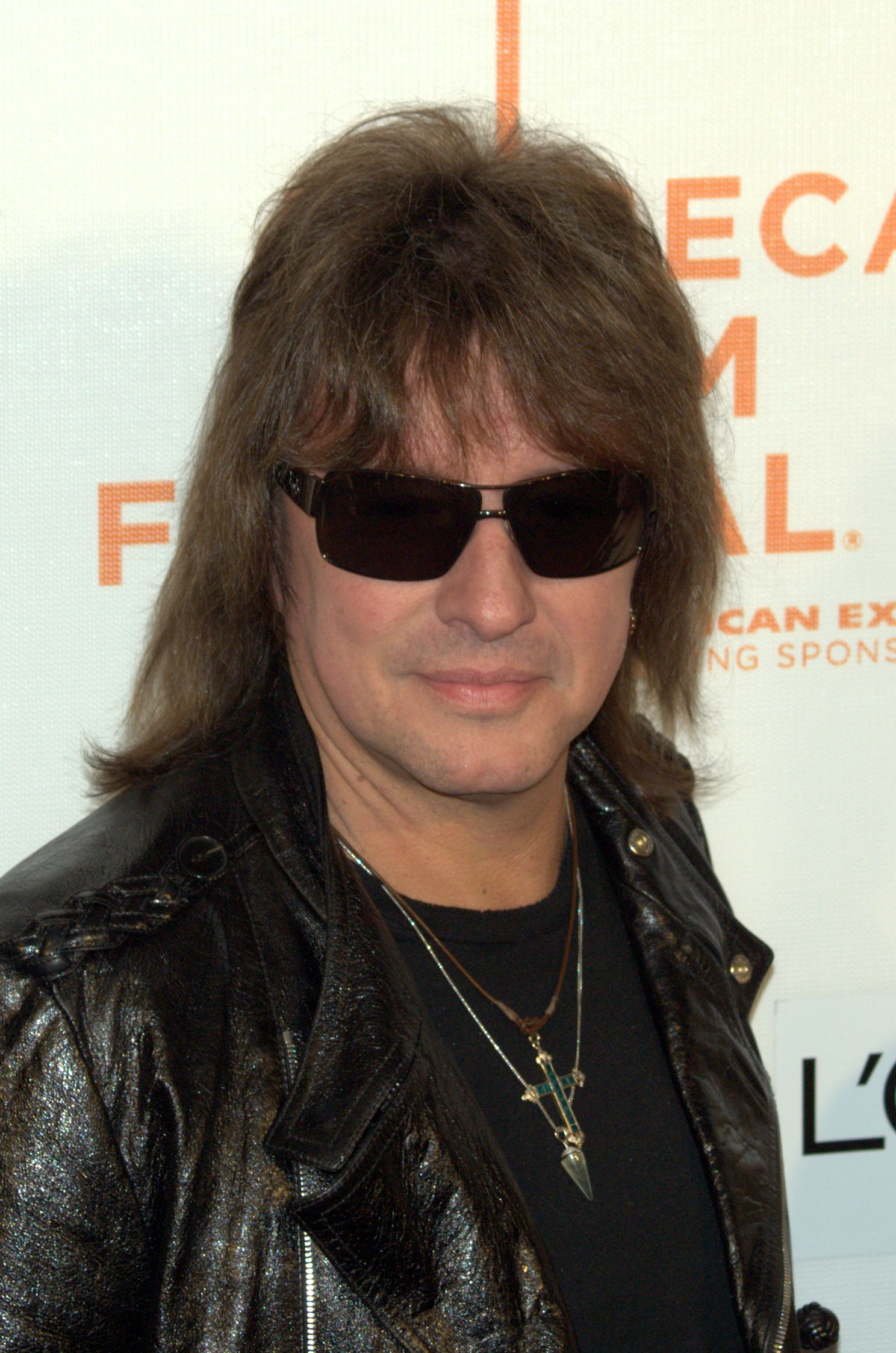 Richie Sambora at the 2009 Tribeca Film Festival for the premiere of When We Were Beautiful. Photographer's blog post about this event and photograph.